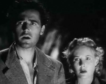 Patric Knowles and Wendy Barrie in Five Came Back (1939) - trailer (cropped screenshot)